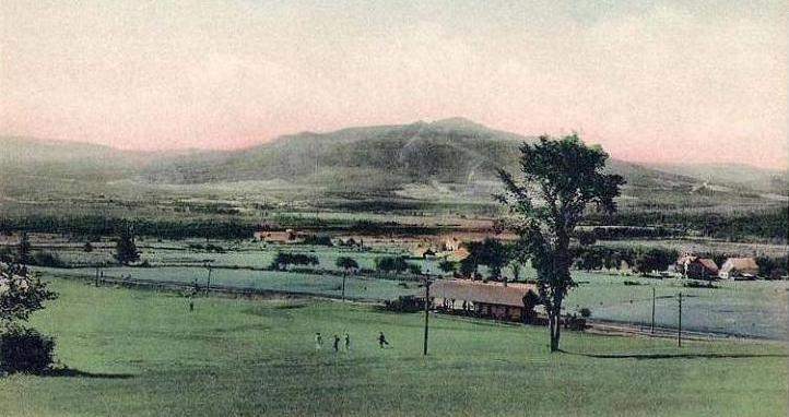 Cherry Mountain from the Waumbek Hotel, Jefferson, NH; from a c. 1910 postcard.